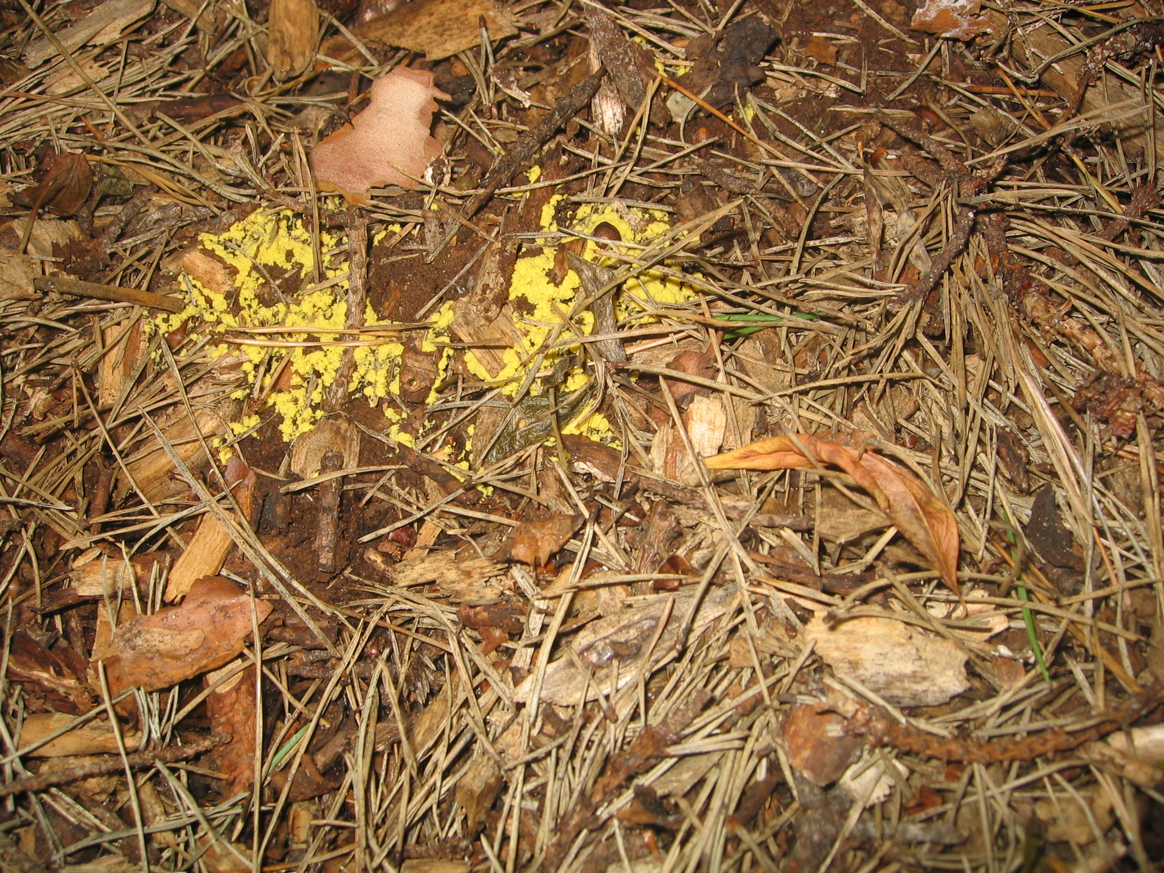 Yellow slime mould, Fuligo rufa (young), (Myxogastria)